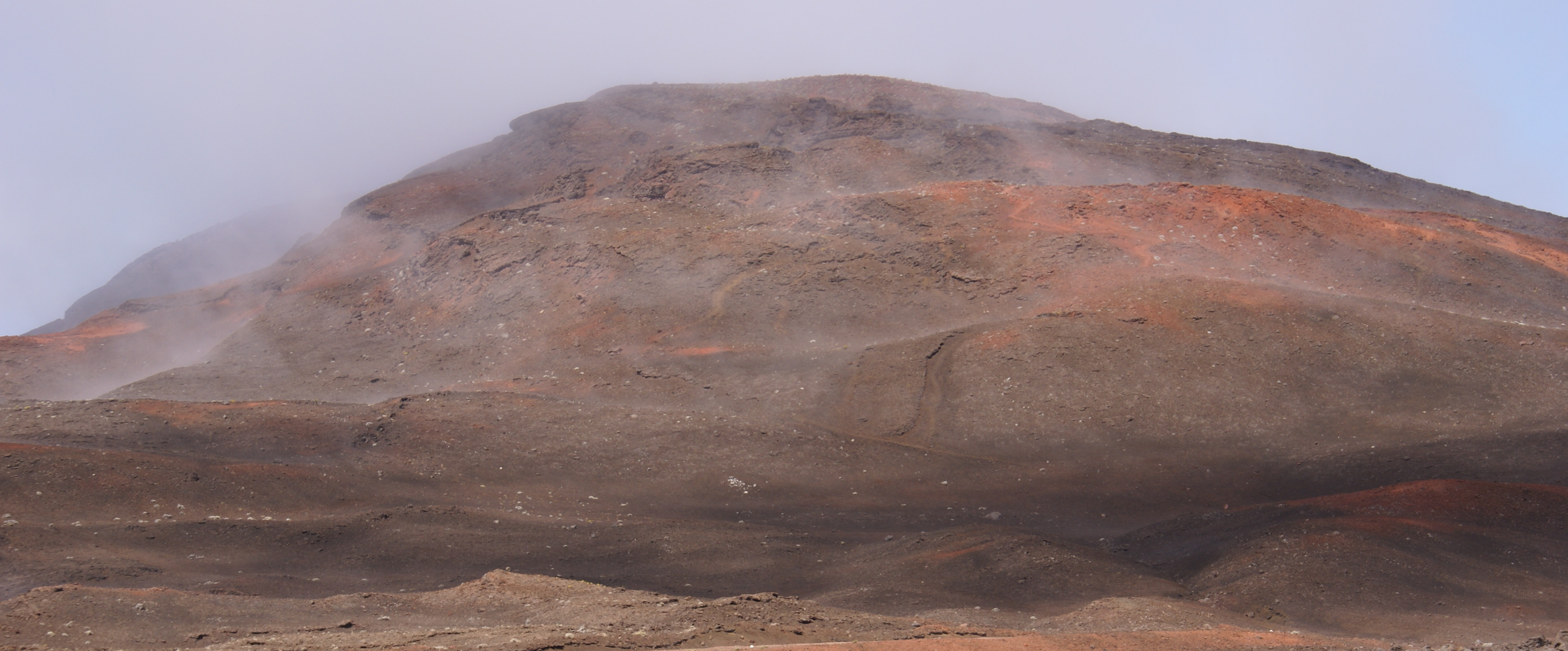 Piton Chisny seen from Demi-Piton